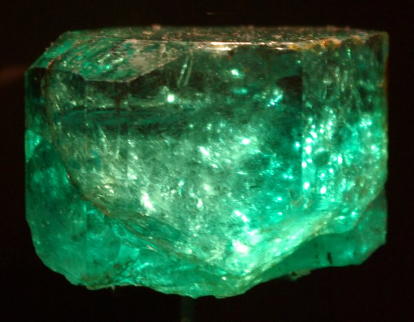 The Gachala Emerald, National Museum of Natural History, Washington DC